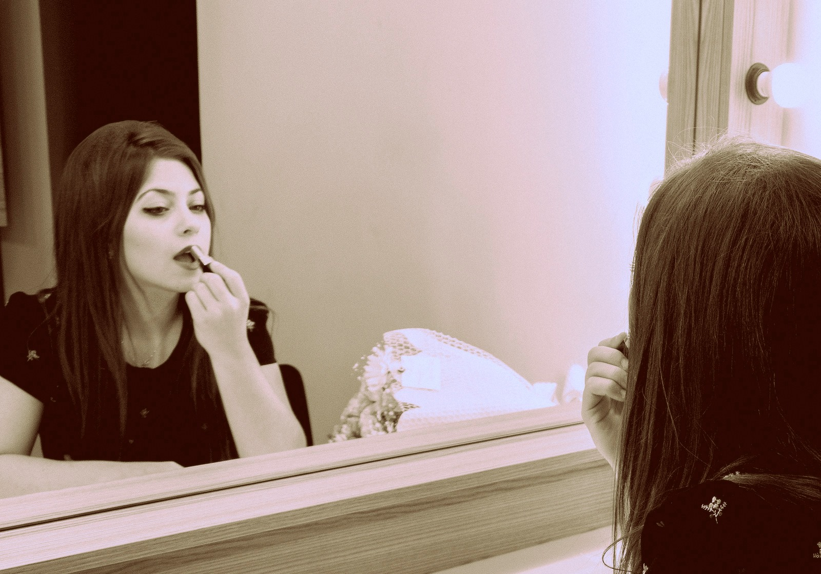 Lara Melda, Mehmet Çağlarer Photography